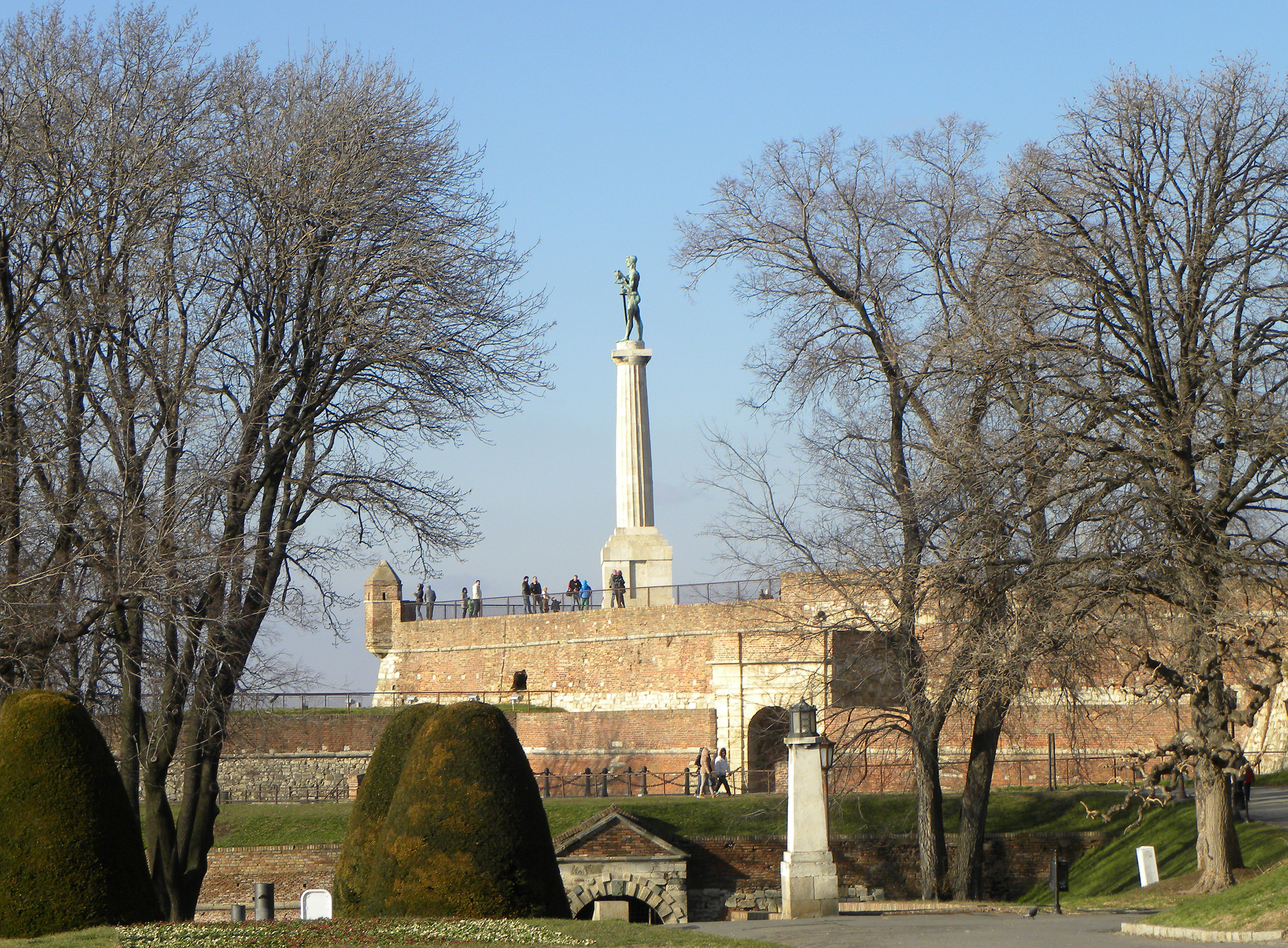 Belgrade Fortress consists of the old citadel (Upper and Lower Town) and Kalemegdan Park (Large and Little Kalemegdan) on the confluence of the River Sava and Danube, in an urban area of modern Belgrade, the capital of Serbia. It is located in Belgrade's municipality of Stari Grad. Belgrade Fortress was declared a Monument of Culture of Exceptional Importance in 1979, and is protected by the Republic of Serbia. It is the most visited tourist attraction in Belgrade, with Skadarlija being the second. Since the admission is free, it is estimated that the total number of visitors (foreign, domestic, citizens of Belgrade) is over 2 million yearly.